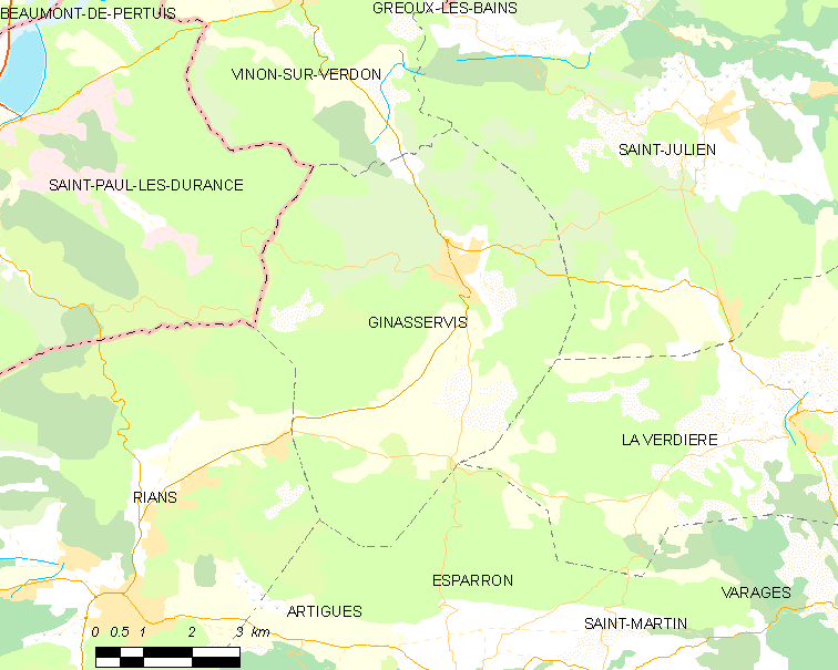 Map of French municipality Ginasservis